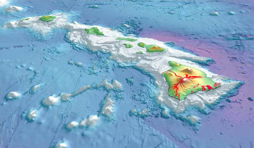 USGS Geologic Investigations Series I-2809 [1]